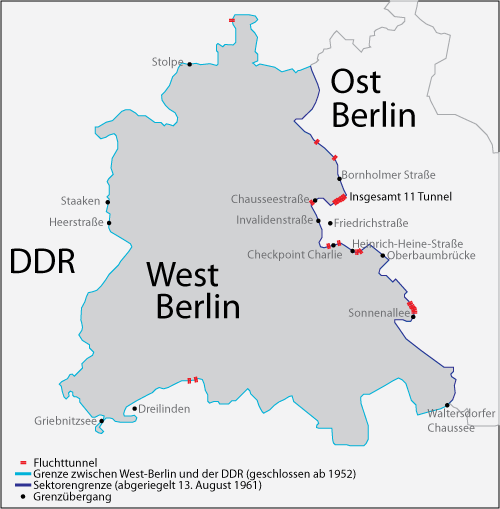 The map is based on File:Berlin-wall-map.png. Positions of the tunnels are taken from Marion Detjens Book "Ein Loch in der Mauer" 2009. The exakt position of some tunnels is unknown, so thoses are missing.